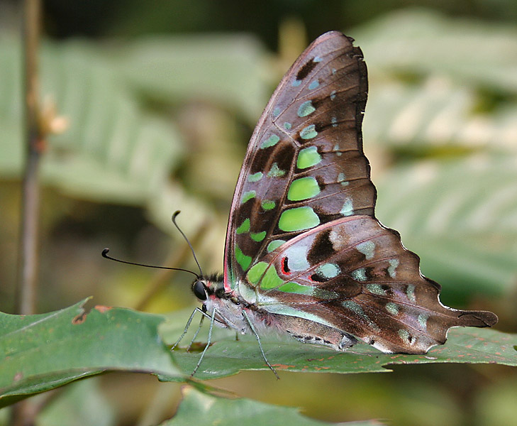 Tailed Jay Graphium agamemnon at Samsing in Darjeeling district of West Bengal, India.